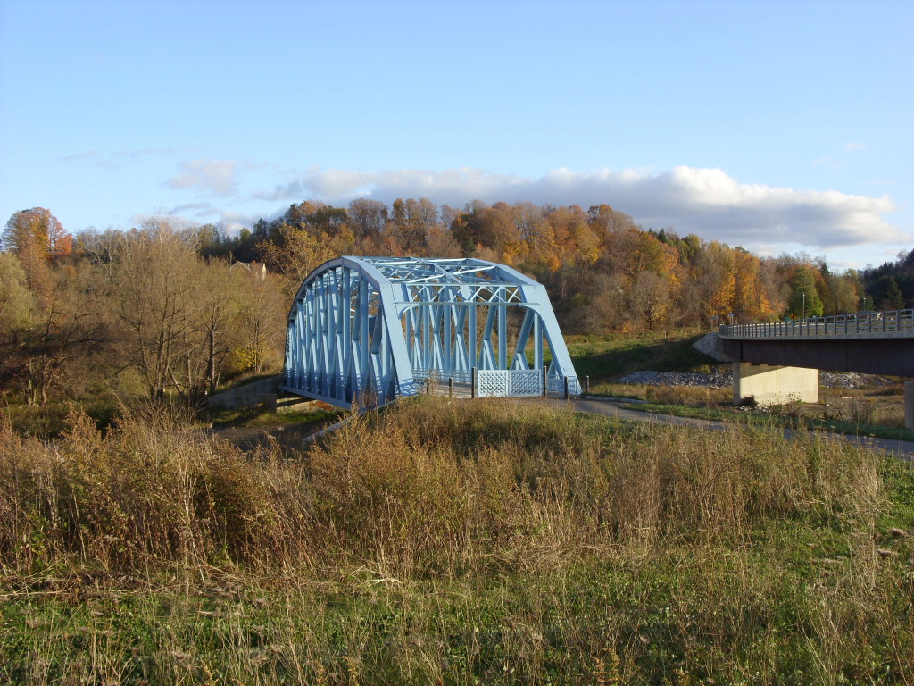 The Bigelow Bridge and New York State Route 240 southbound in 2008, the new span built to bypass the old truss span, which has been closed off.